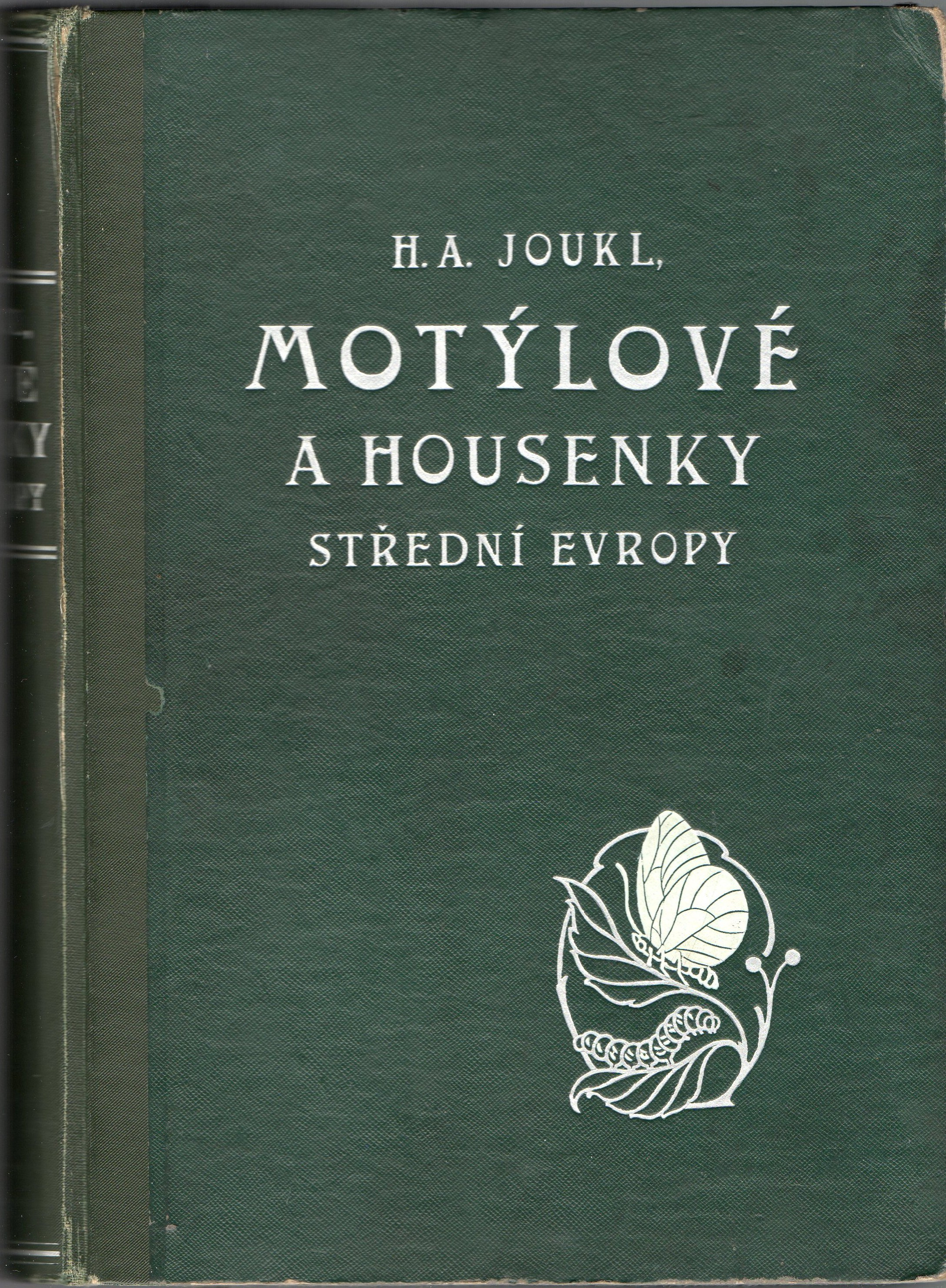 Joukl (1862-1910): "Motýlové a housenky střední Evropy" 1910